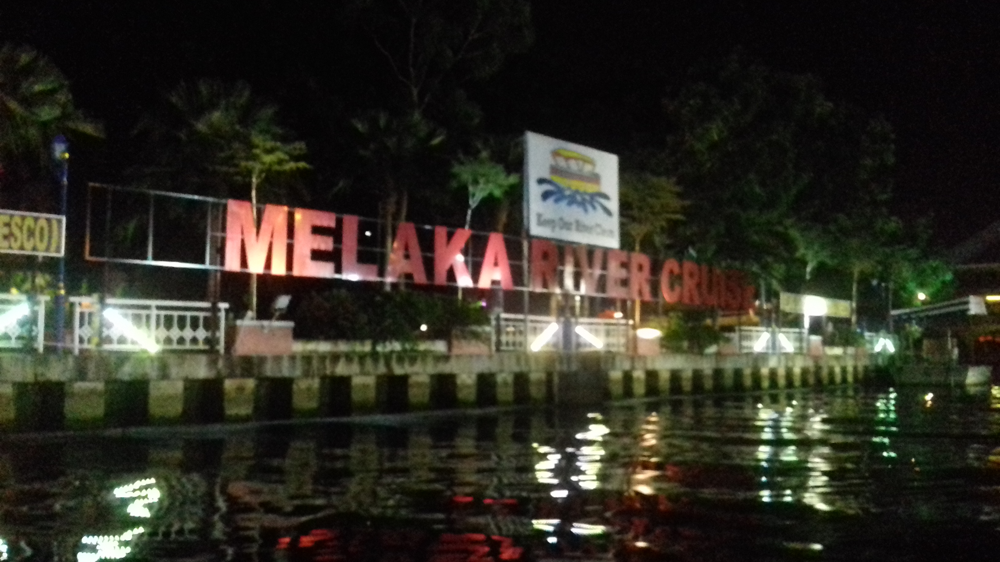 Melaka River Cruise Letters